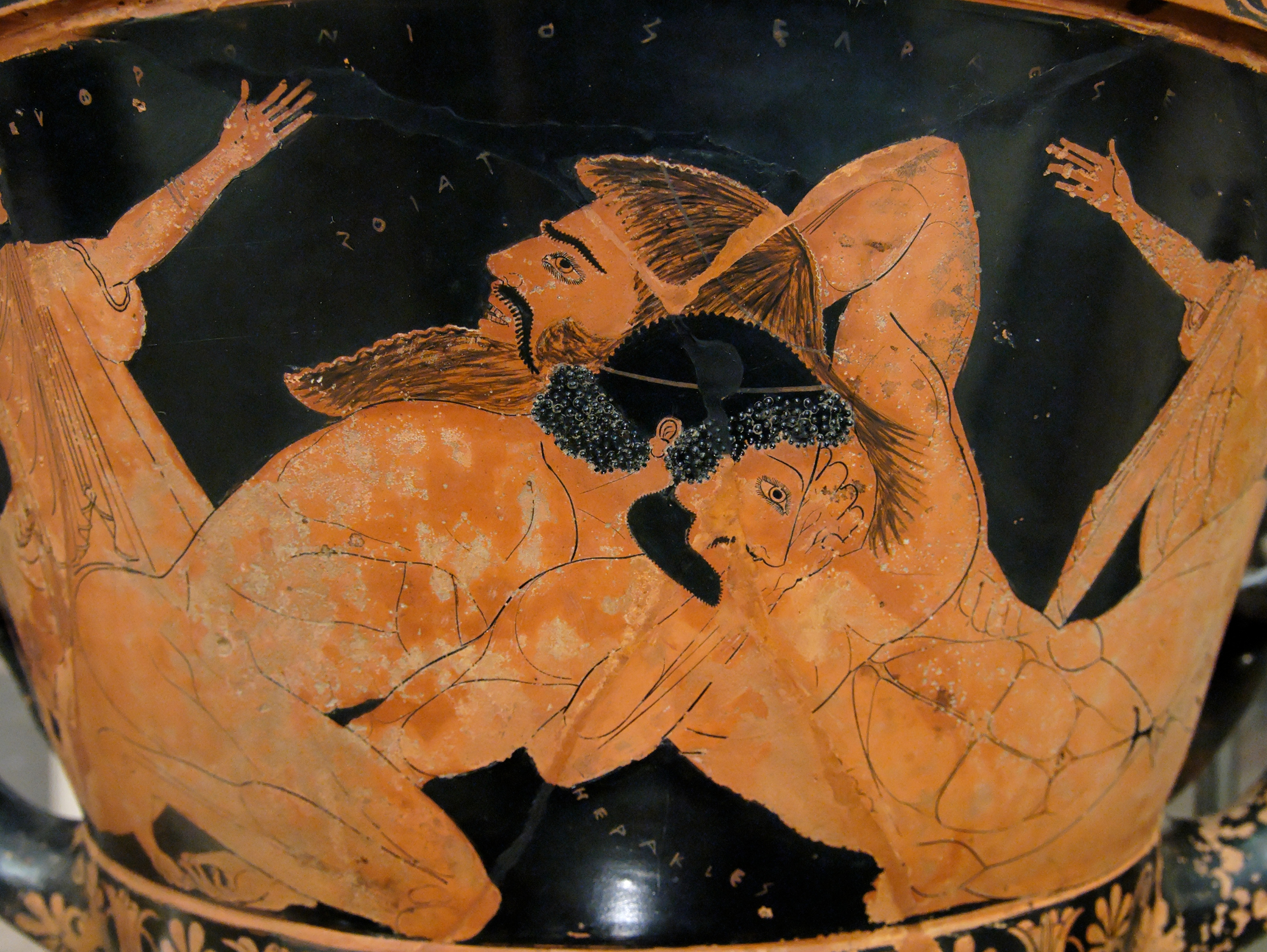 Heracles's face, detail of a scene representing Heracles wrestling with the libyan giant Antaeus. Main side of a red-figured calyx krater, 515–510 BC.